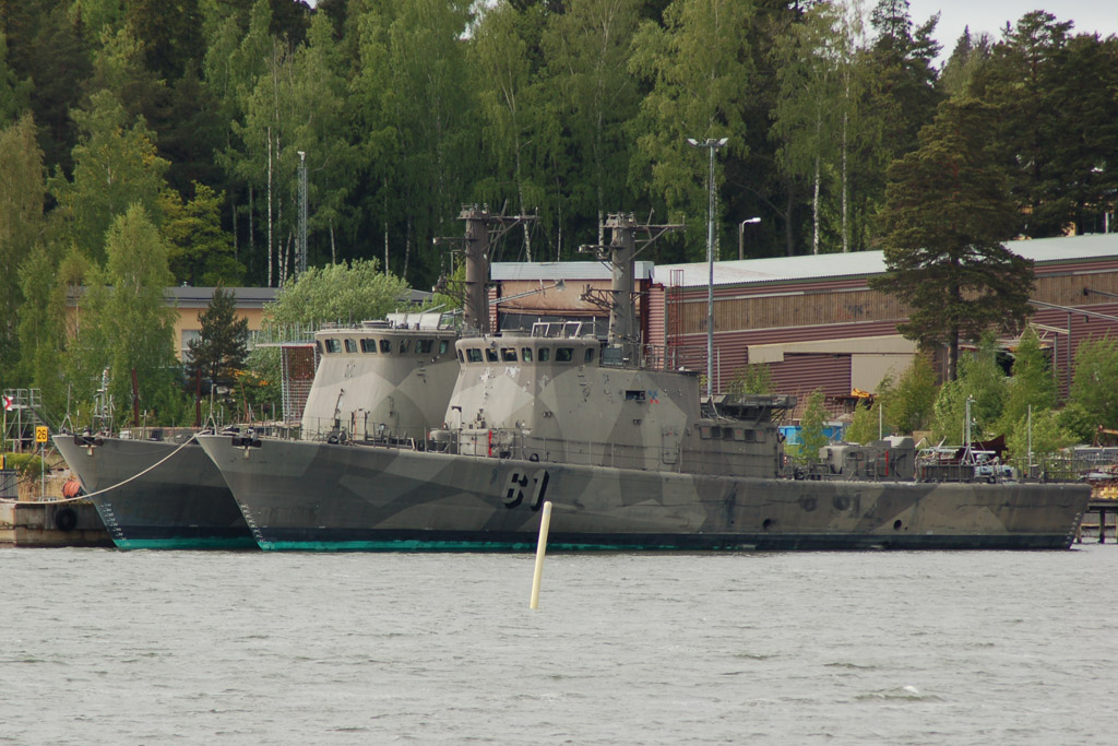 Two decommissioned Helsinki-class missile boats, FNS Turku (61) to the right and possibly FNS Helsinki (60) to the left.